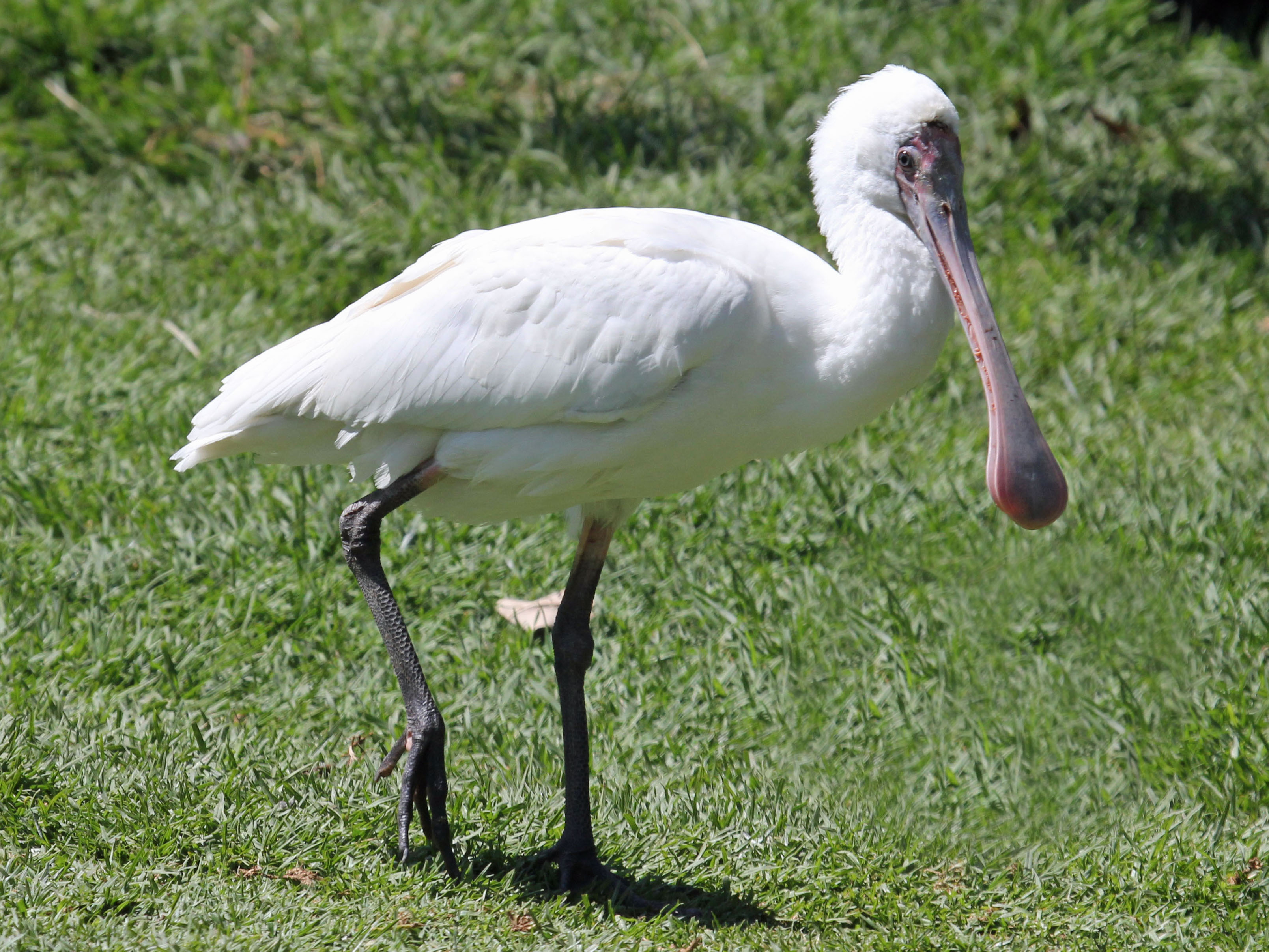 African Spoonbill (Platalea alba) at Birds of Eden aviary, South Africa